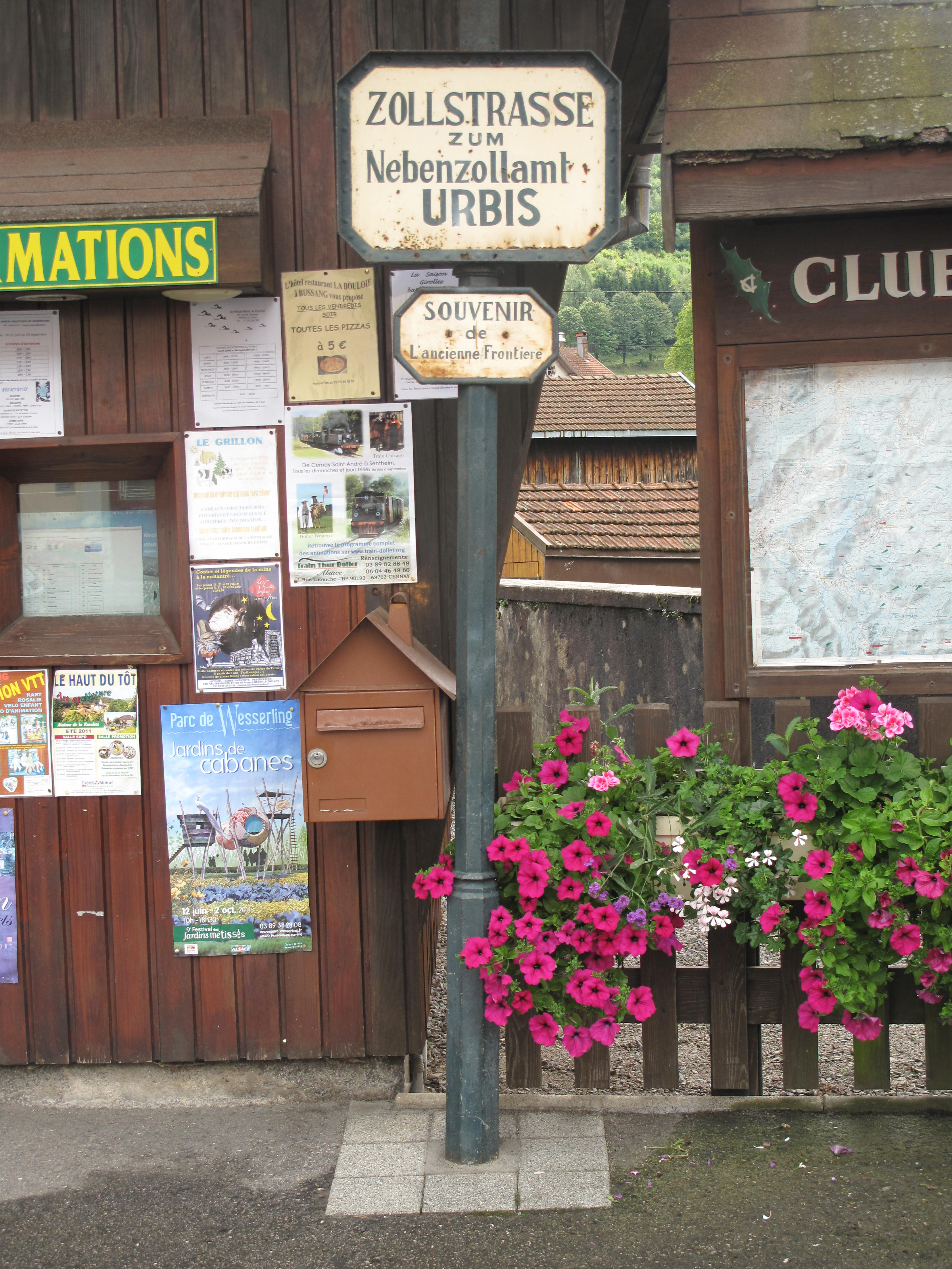 Former border panel 1871-1918. This panel indicated the border between France and Germany during the occupation of Alsace-Lorraine at the col de Bussang. It is now in front of the tourism office (Vosges, France).